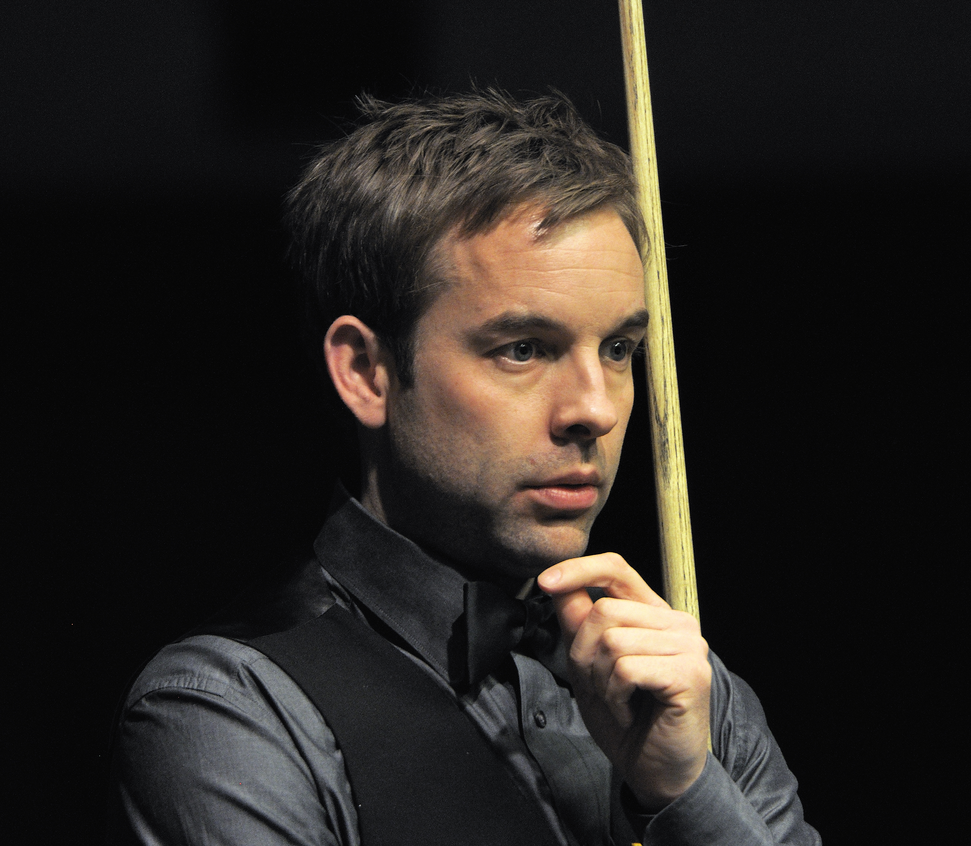 Picture taken in Berlin during the Snooker German Masters in 2013. Ali Carter.